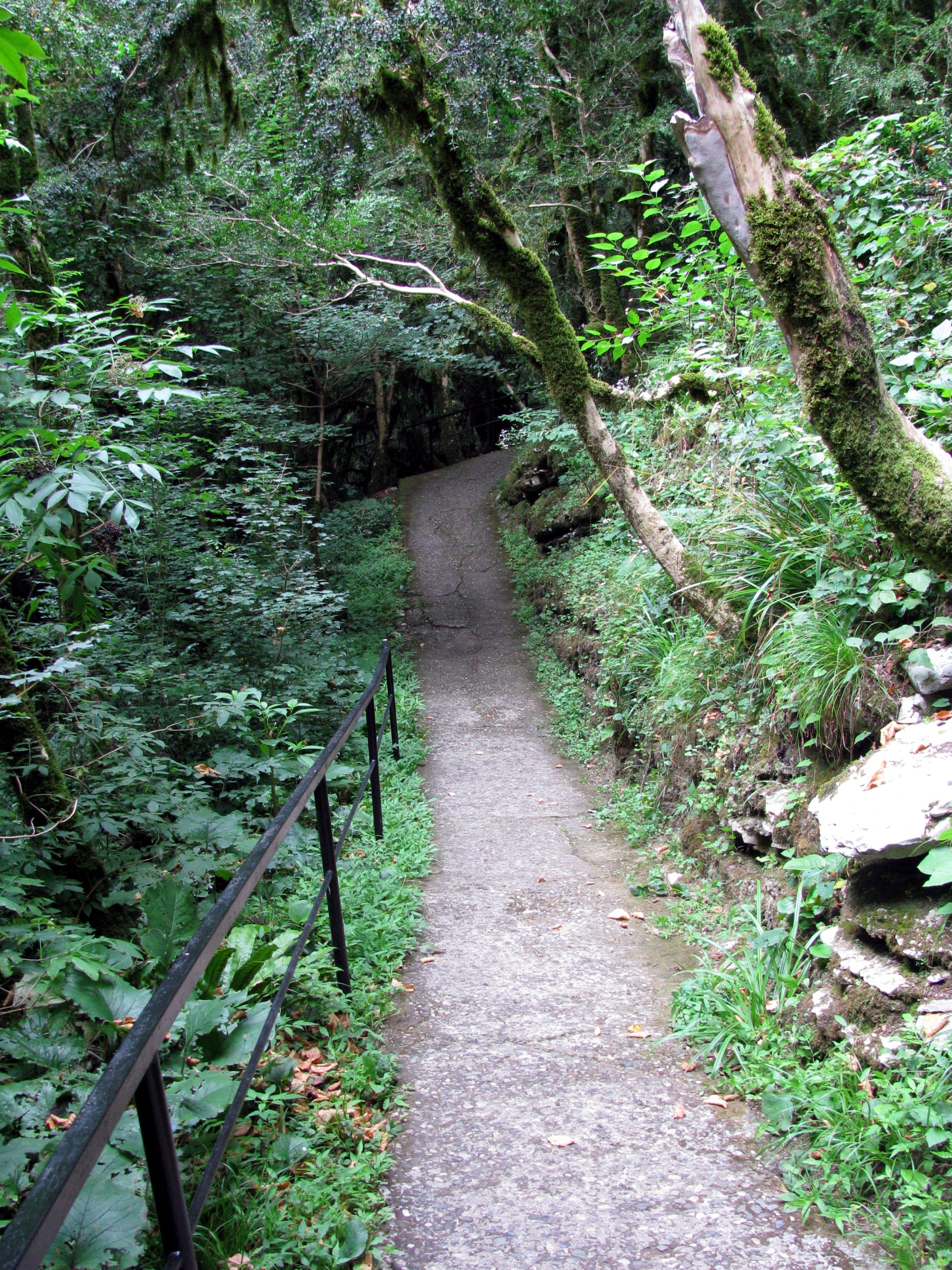 Trail past Buxus sempervirens (Boxwood), and Taxus baccata (Yew), and Hosta roscha — in the Yew-box grove near Sochi. Located in the Caucasian State Nature Biosphere Reserve, Western Caucasus region, Southwestern Russia.